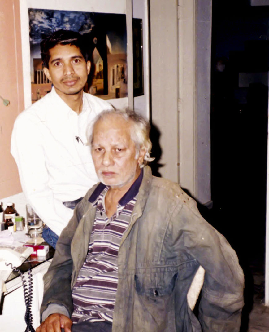 Picture of Muhammad Arshad Khan And Bashir Mirza.